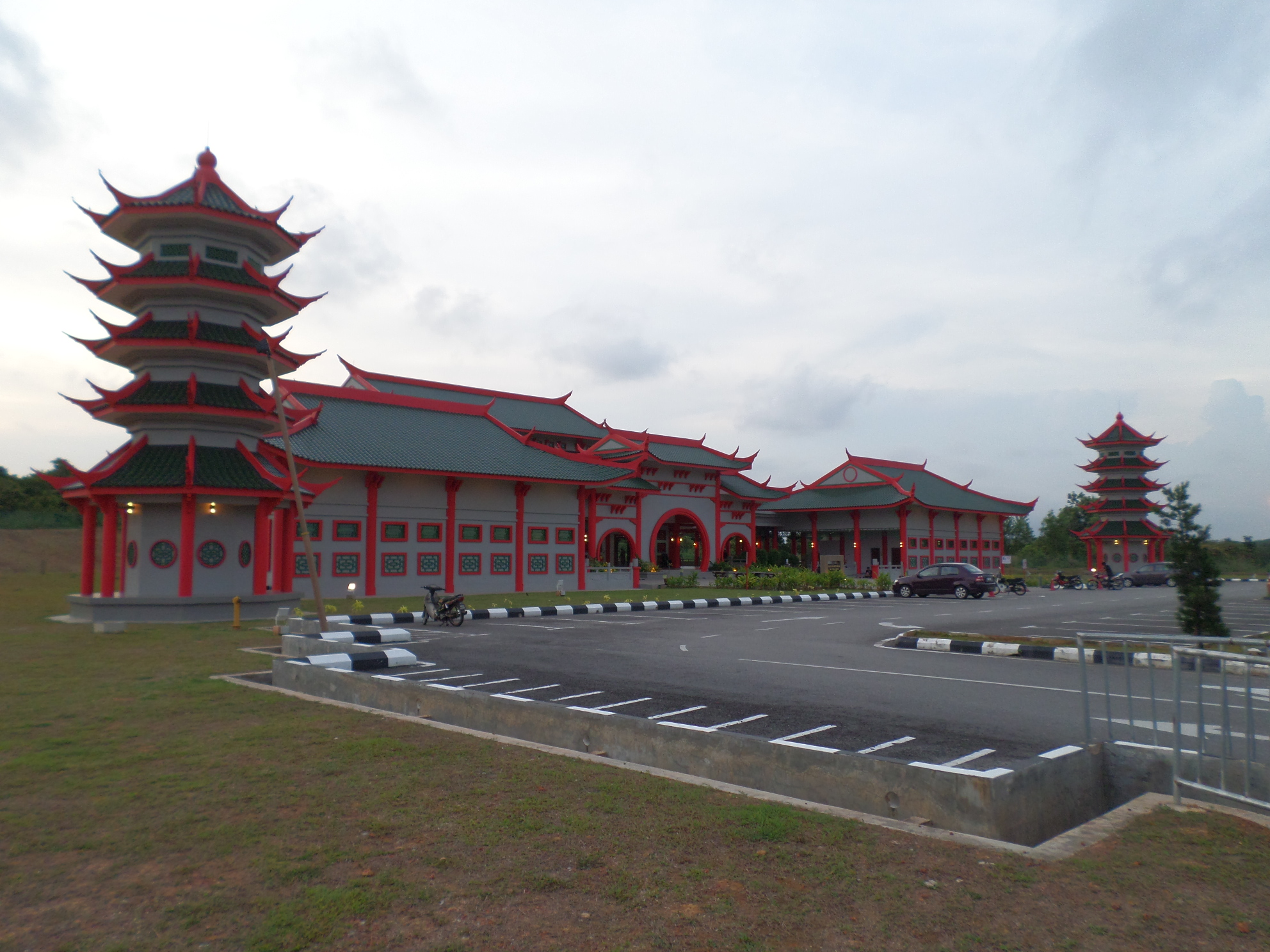 Melaka Chinese Mosque, Krubong, Central Melaka, Melaka, MalaysiaBahasa Melayu: Masjid Cina Negeri Melaka, Krubong, Melaka Tengah, Melaka, Malaysia